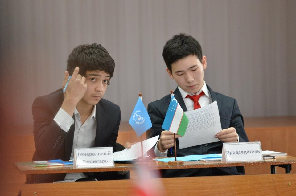 un model